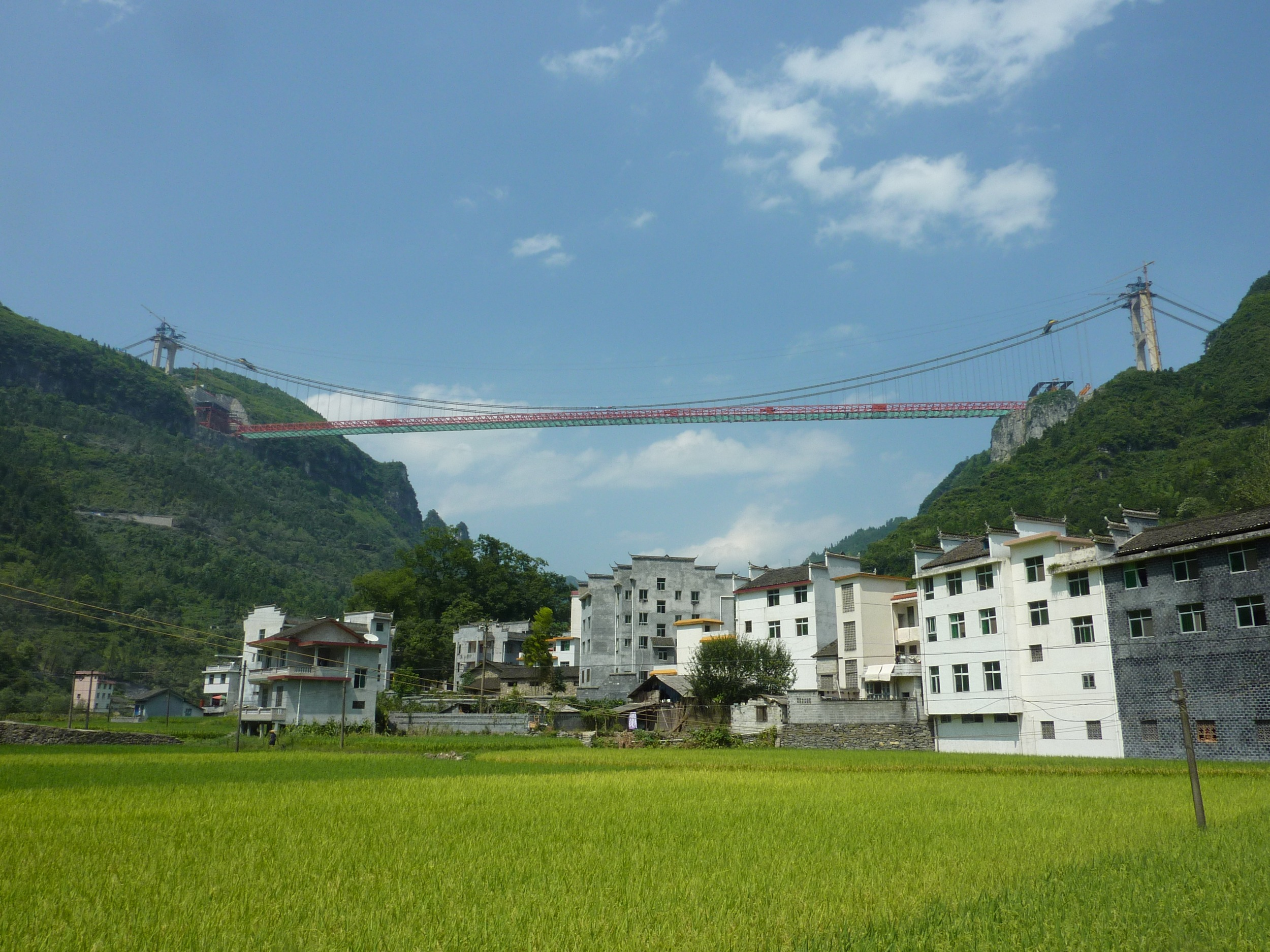 The Aizhai Bridge is a suspension bridge near Jishou in Hunan Province of China